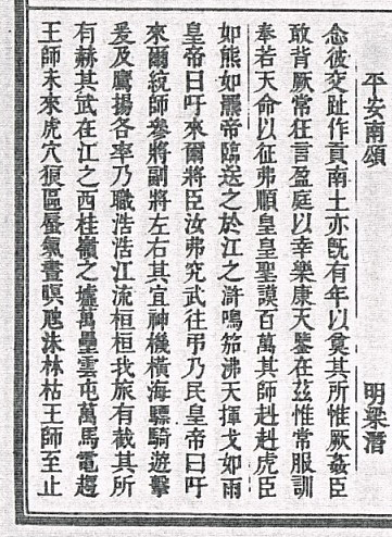 Ping An Nam Song